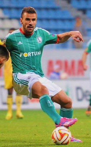 Orlando Sá